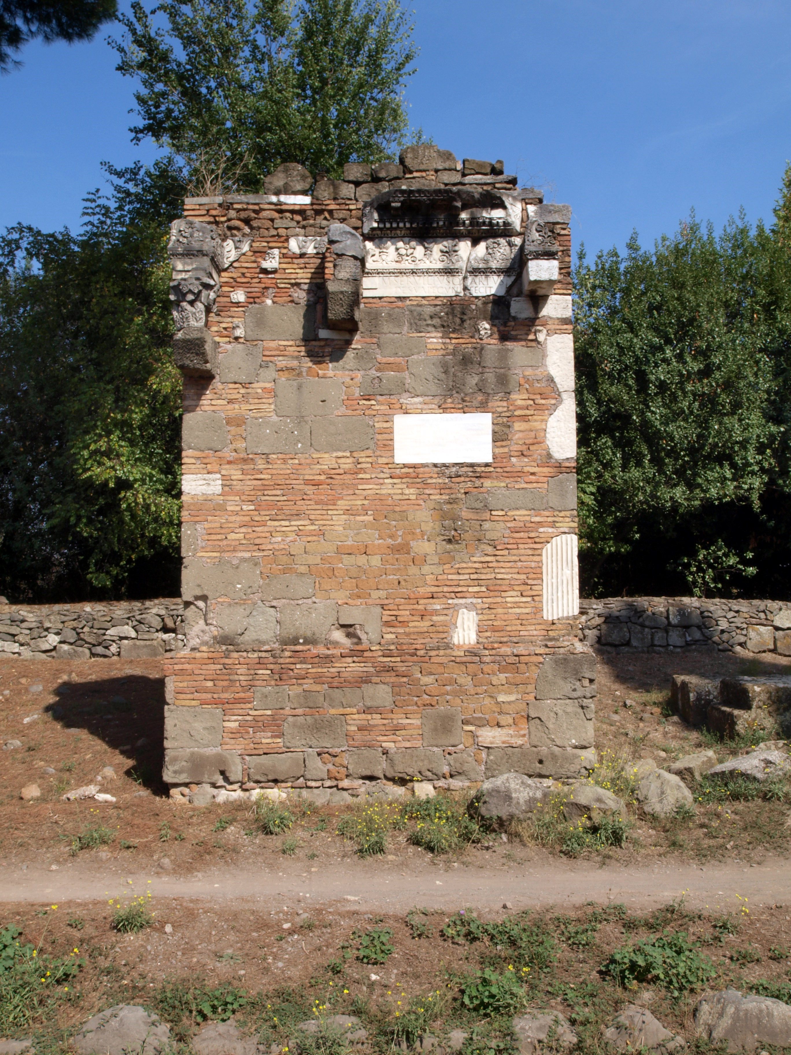 Photographed at the Via Appia Antica